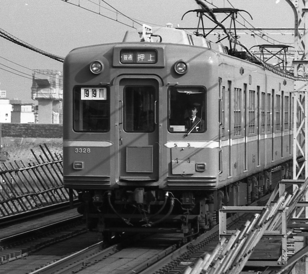 Keisei 3328 running over the Arakawa river